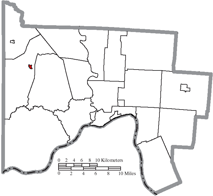 Map of the municipal and township boundaries of Scioto County, Ohio, United States, as of the 2000 census, with the location of the village of Otway highlighted. Township borders are shown only in unincorporated areas in order to differentiate incorporated and unincorporated areas more clearly.